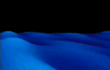 demo effect